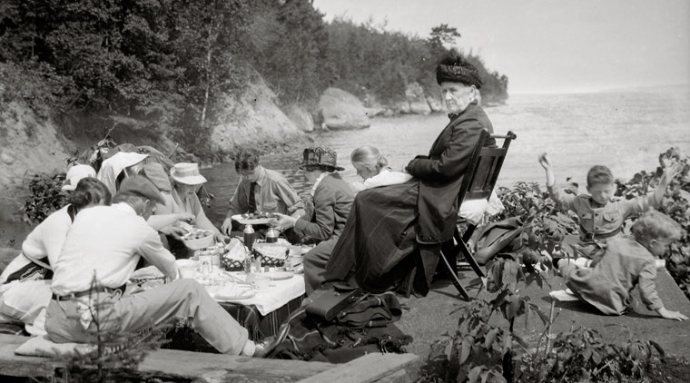 Family Gathering on Basswood Island, Photograph by Elizabeth Abernathy Hull, 1916. Wisconsin Historical Society Image ID 1973